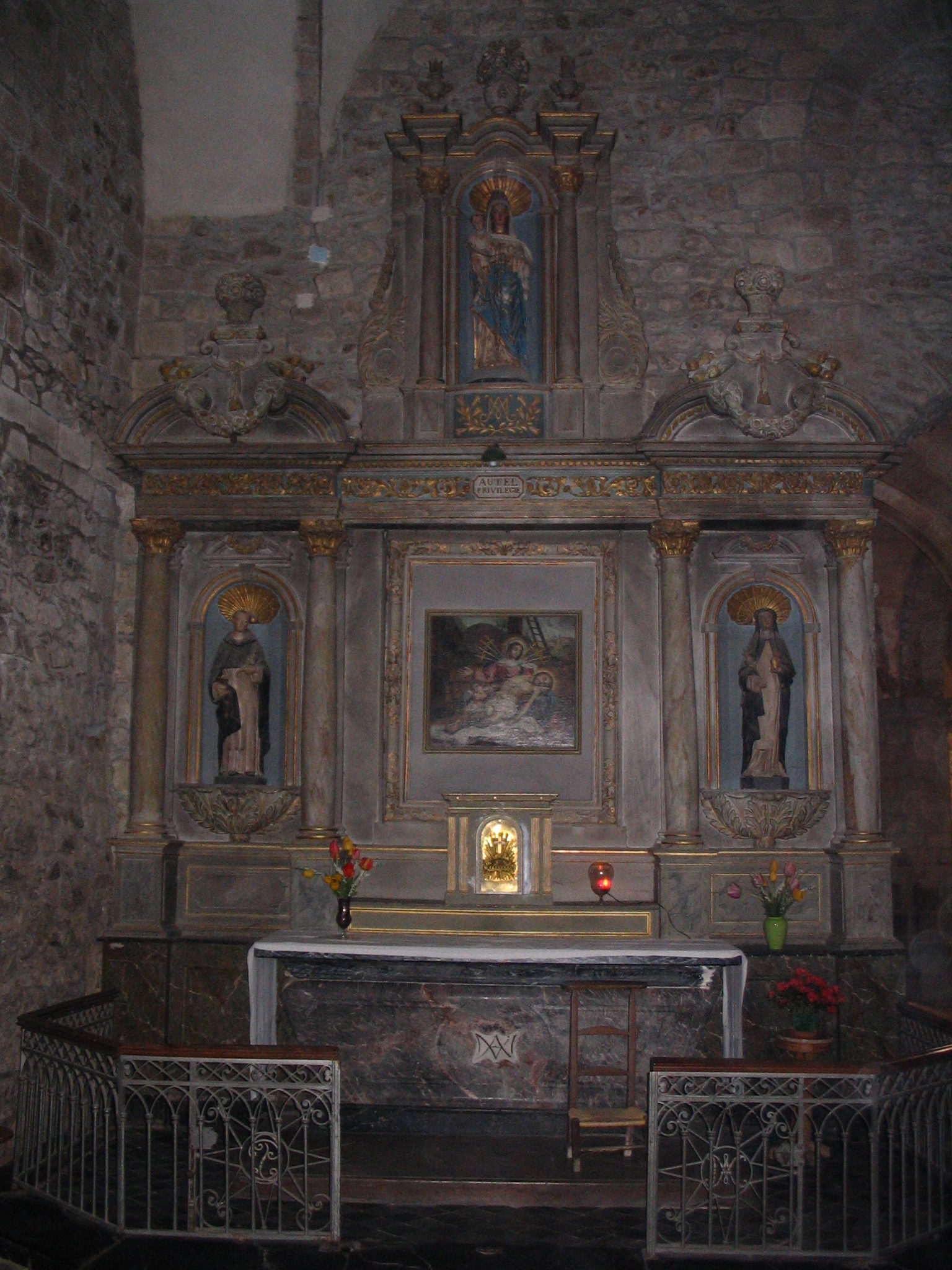 A chapel in the churche Saint-Martin of Mayenne, Mayenne, France.